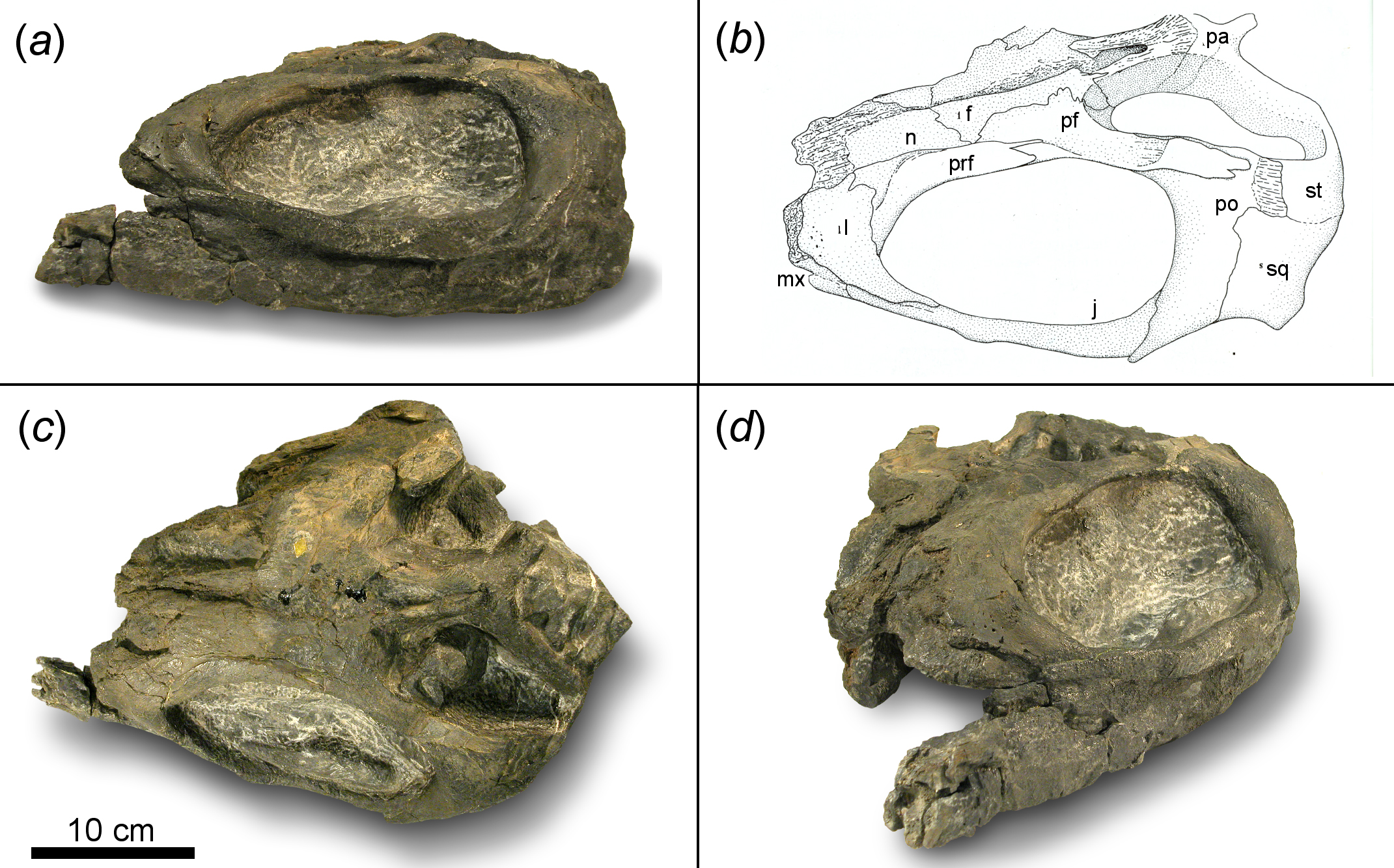 Partial skull of Shastasaurus pacificus (UCMP 9017) from the Late Triassic of California, USA, in (A) lateral, (B) dorsal, and (C) anterolateral view. Based on this skull, Shastasaurus has repeatedly been reconstructed with a long, tooth-bearing rostrum. However, note the slenderness of the lower jaw (B, C) and the strong anterior taper of the snout (B), both of which are more consistent with the abbreviated and toothless snout of Shastasaurus liangae comb. nov. than with the traditional long-snouted reconstruction of this skull (as, e.g., in references [22] and [23]).